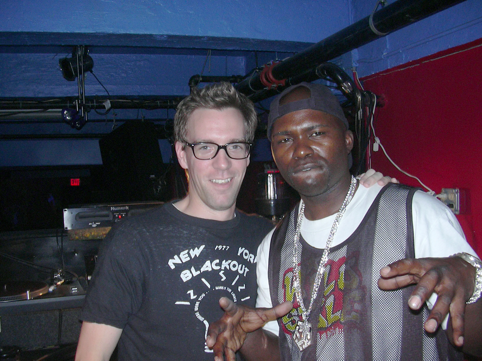 In the early 1970's in the South Bronx, a young teen DJ named "Grand Wizzard Theodore" invented the "DJ scratch" technique. Other DJs, like Grandmaster Flash, took the technique to higher levels to the familiar sound and technique we hear today.